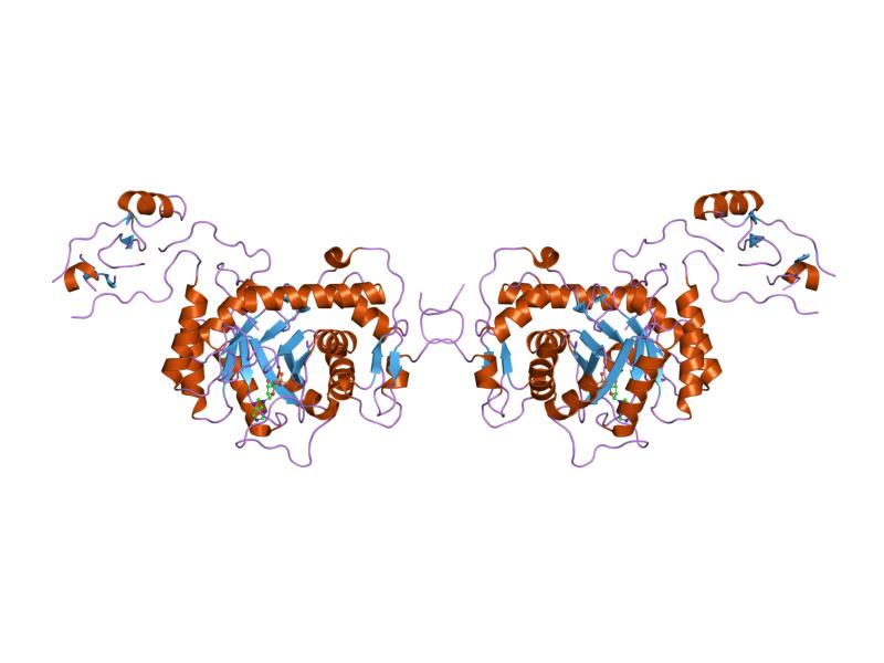 Cartoon representation of the molecular structure of protein registered with 1jcn code.